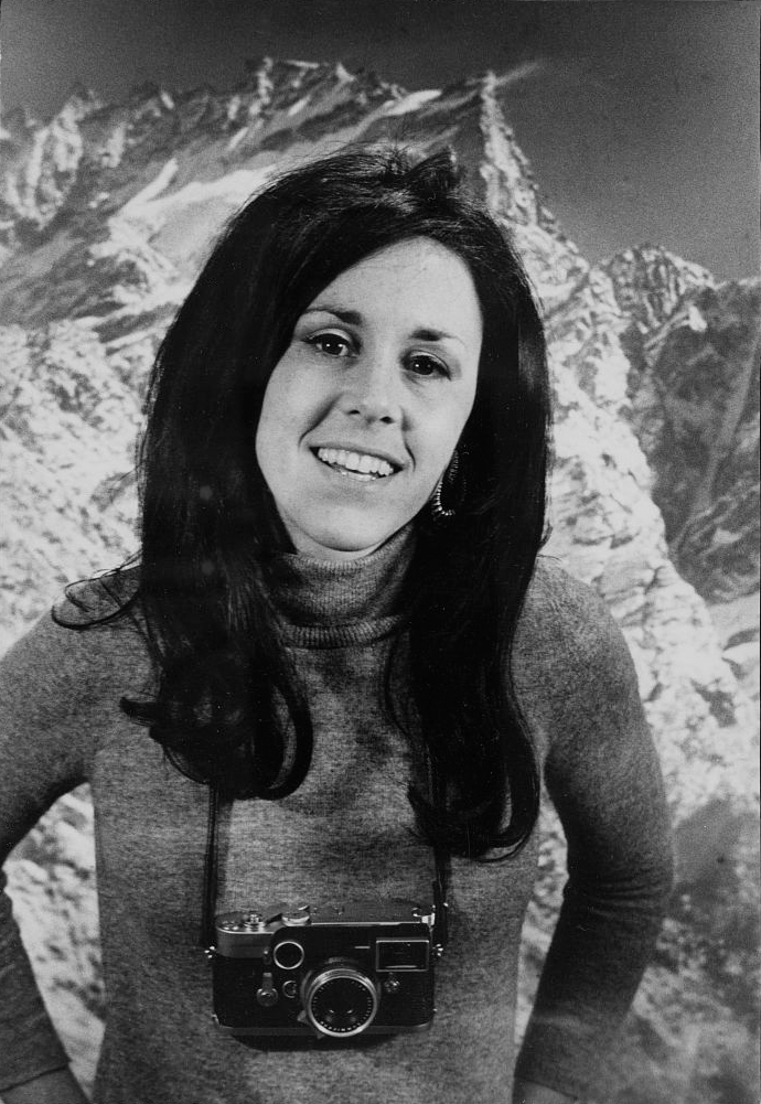 Alice S. Kandell, photographer from the USA. LC-DIG-ppmsca-30901 (digital file from original).